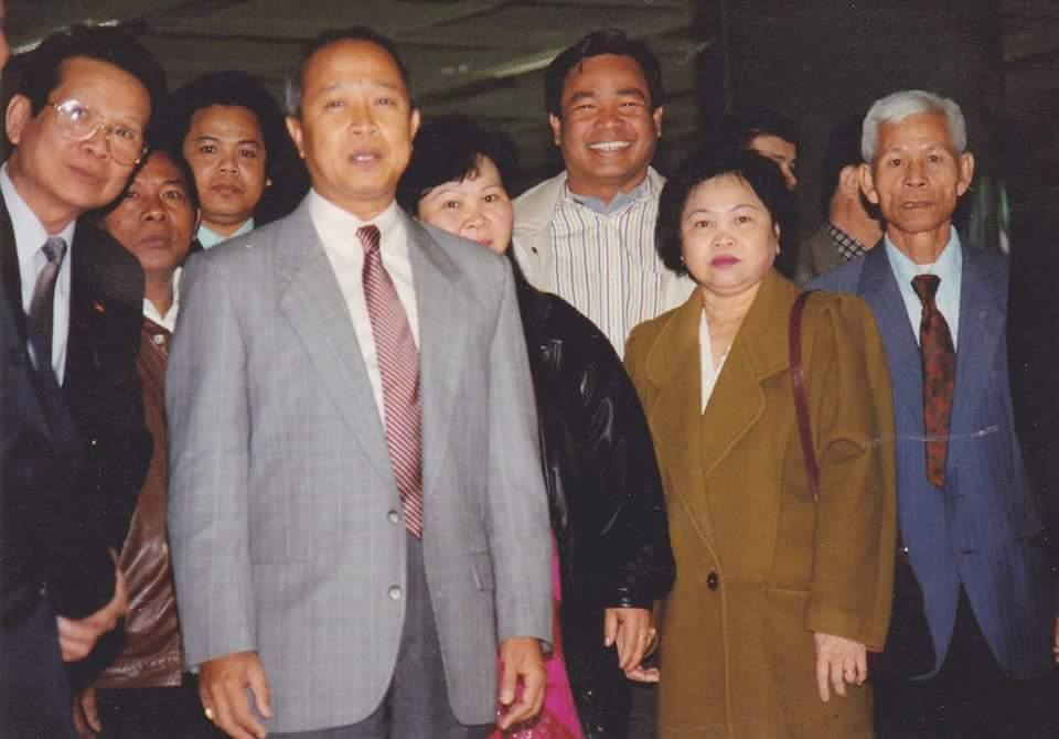 First Prime Minister Norodom Ranariddh with personal officers